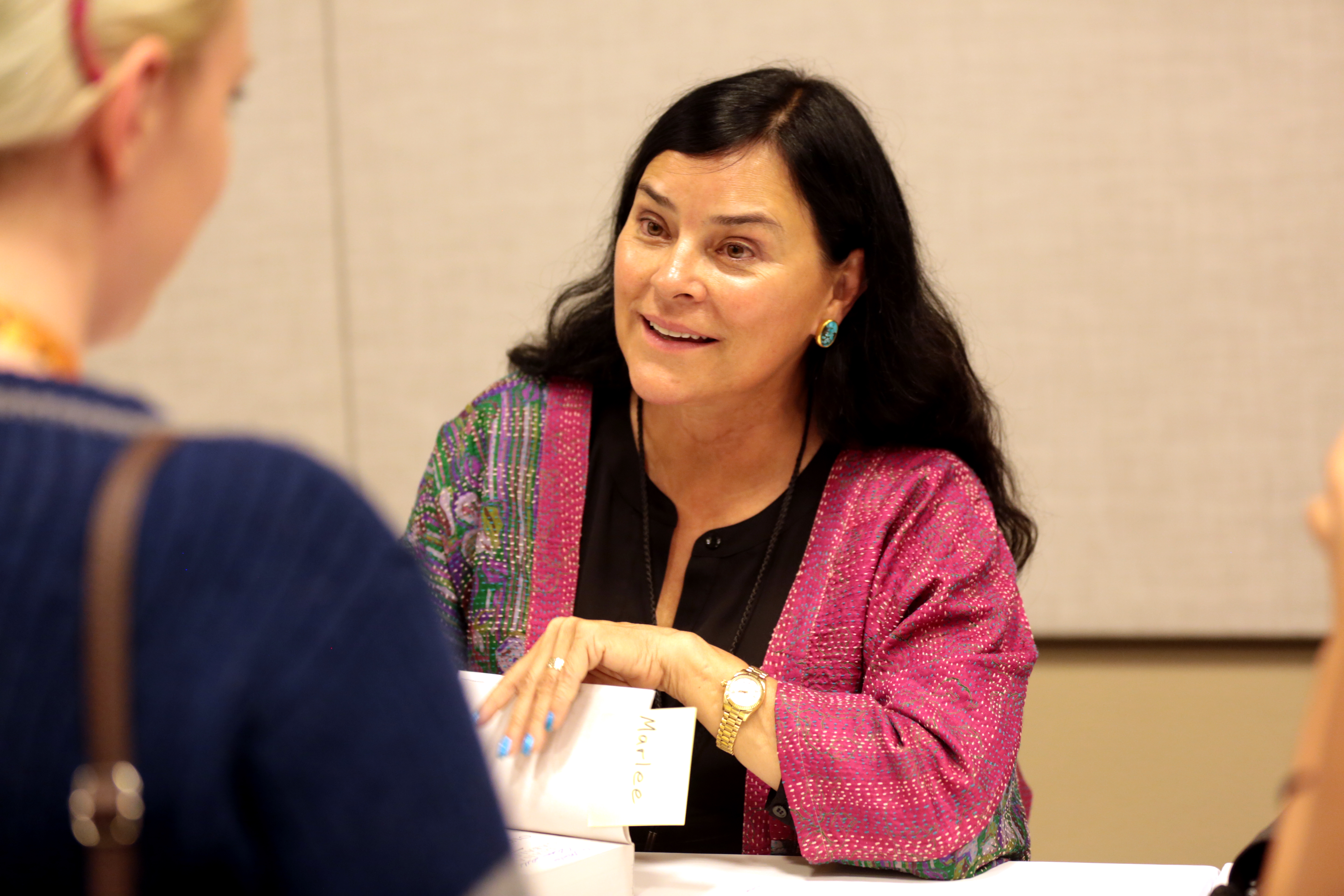 Diana Gabaldon signing books at the 2017 Phoenix Comicon at the Phoenix Convention Center in Phoenix, Arizona.